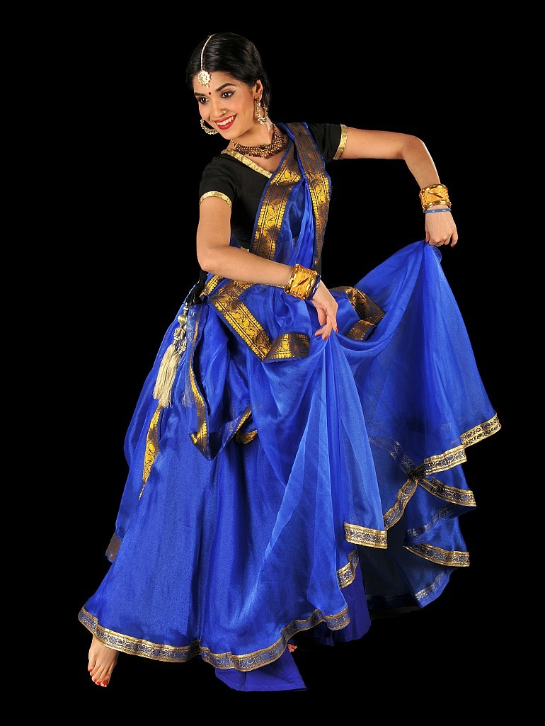 Kathak (Hindi: कथक) is one of the eight forms of Indian classical dances, originated from India. This dance form traces its origins to the nomadic bards of ancient northern India, known as Kathakars or storytellers. Its form today contains traces of temple and ritual dances, and the influence of the bhakti movement. The name Kathak is derived from the Sanskrit word katha meaning story, and katthaka in Sanskrit means he who tells a story, or to do with stories. The name of the form is properly कत्थक katthak, with the geminated dental to show a derived form, but this has since simplified to modern-day कथक kathak. kathaa kahe so kathak is a saying many teachers pass on to their pupils, which is generally translated, she/he who tells a story, is a kathak', but which can also be translated, 'that which tells a story, that is 'Kathak'. Kathak began in ancient times with the performances of professional story-tellers called kathakas who recited or sang stories from epics and mythology with some elements of dance. The traditions of the kathakas were hereditary, and dances passed from generation to generation. There are literary references from the 3rd and 4th centuries BCE which refer to these kathakas. Above: Anjum Bharti - Kathak exponent / dance choreographer / actress / model She received formal training in Kathak from the National Institute of Kathak - Kathak Kendra, New Delhi, India under Guru Smt. Geetanjali Lal